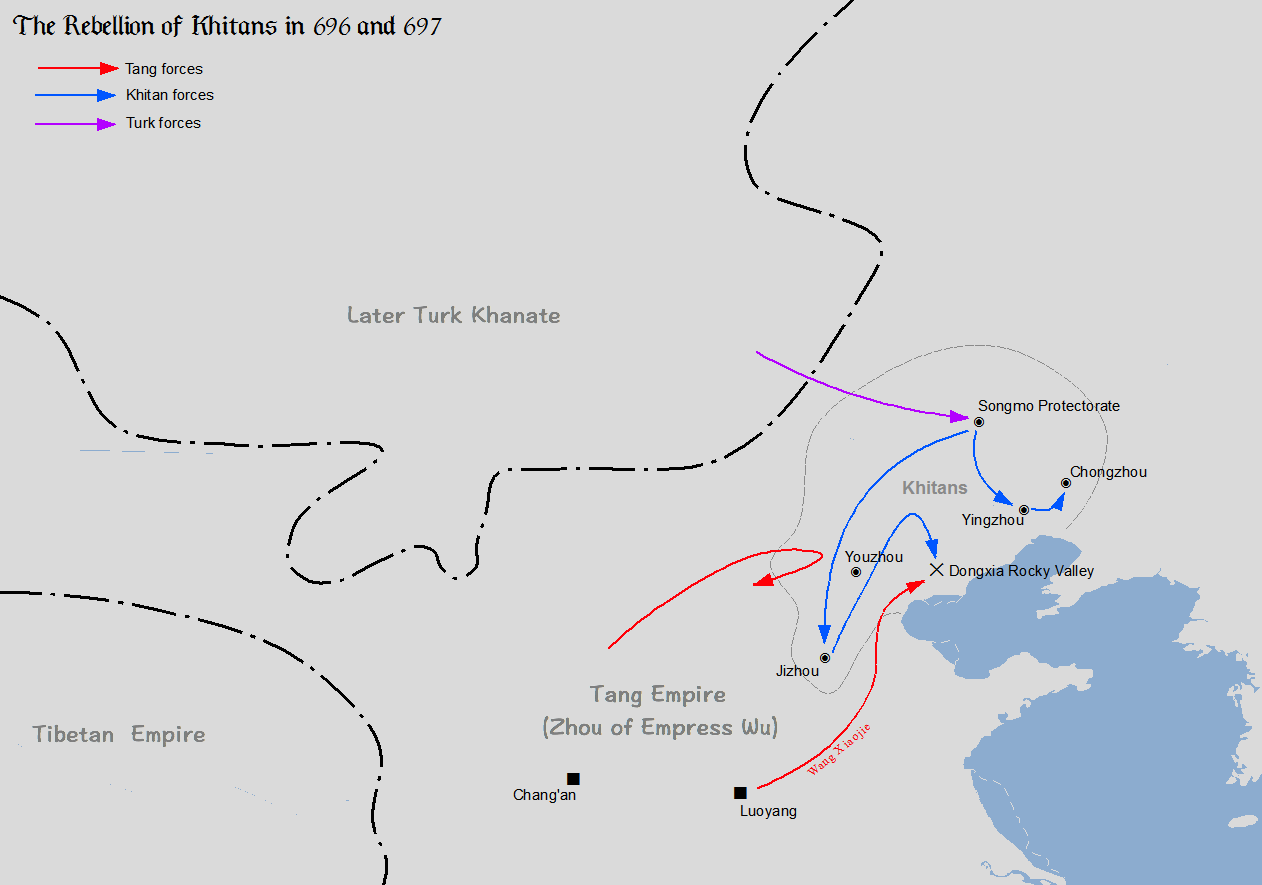 Map showing the rebellion of Khitans led by Li Jinzhong and Sun Wanrong in 696 - 697 in Tang dynasty